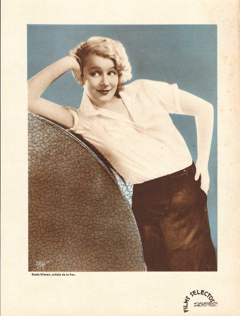 Publicity photo of Greta Nissen for Argentinean Magazine. (Printed in USA)